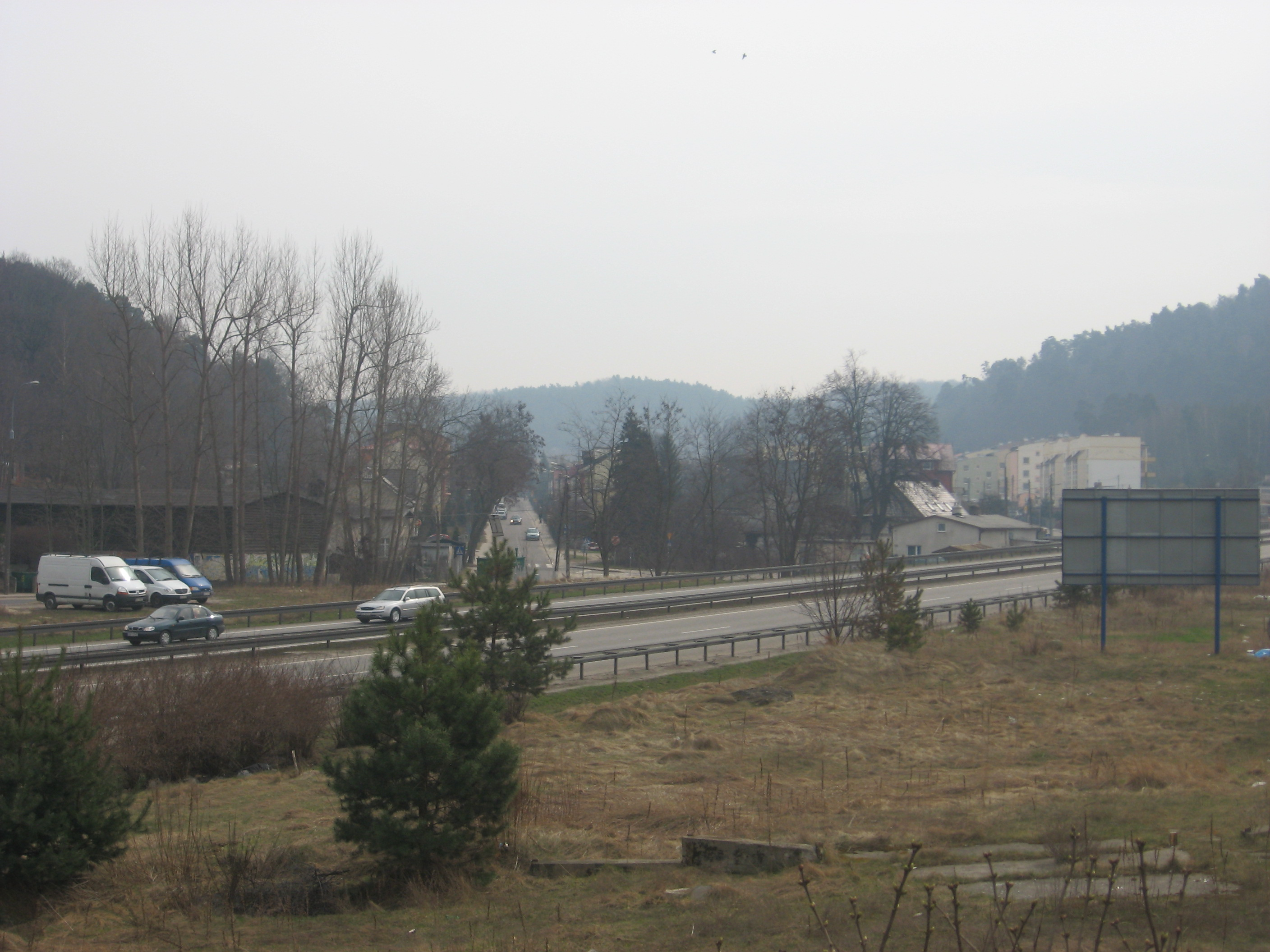 District Demptowo in Gdynia